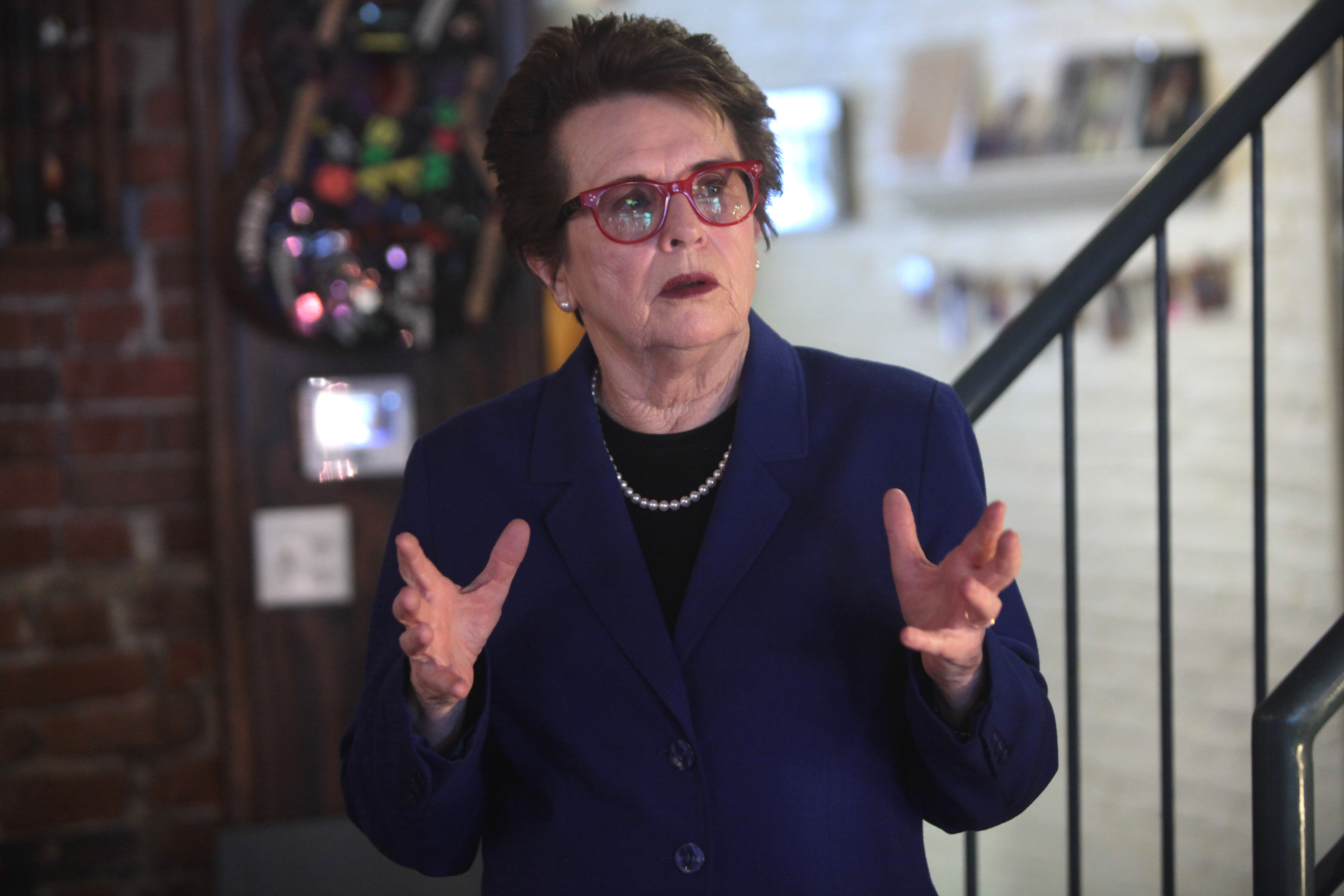 Billie Jean King speaking with supporters of former Secretary of State Hillary Clinton at a campaign event in Des Moines, Iowa.